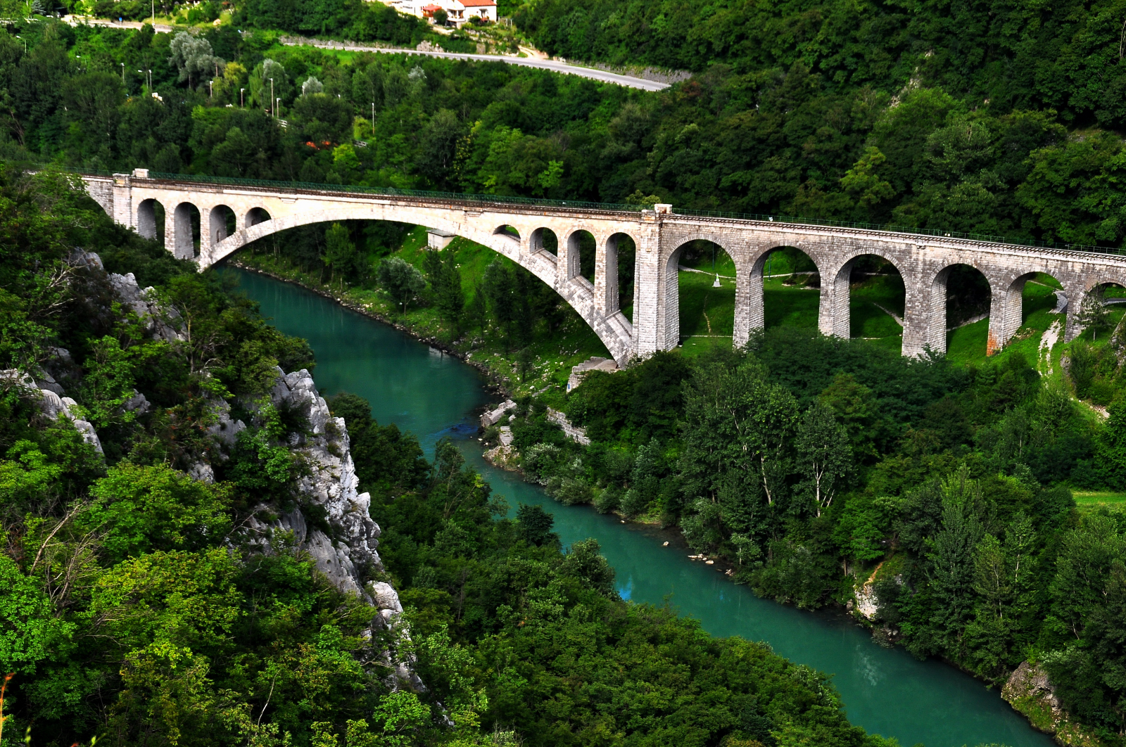 Solkan bridge across the Isonzo-river near Nova Gorica, Slovenia